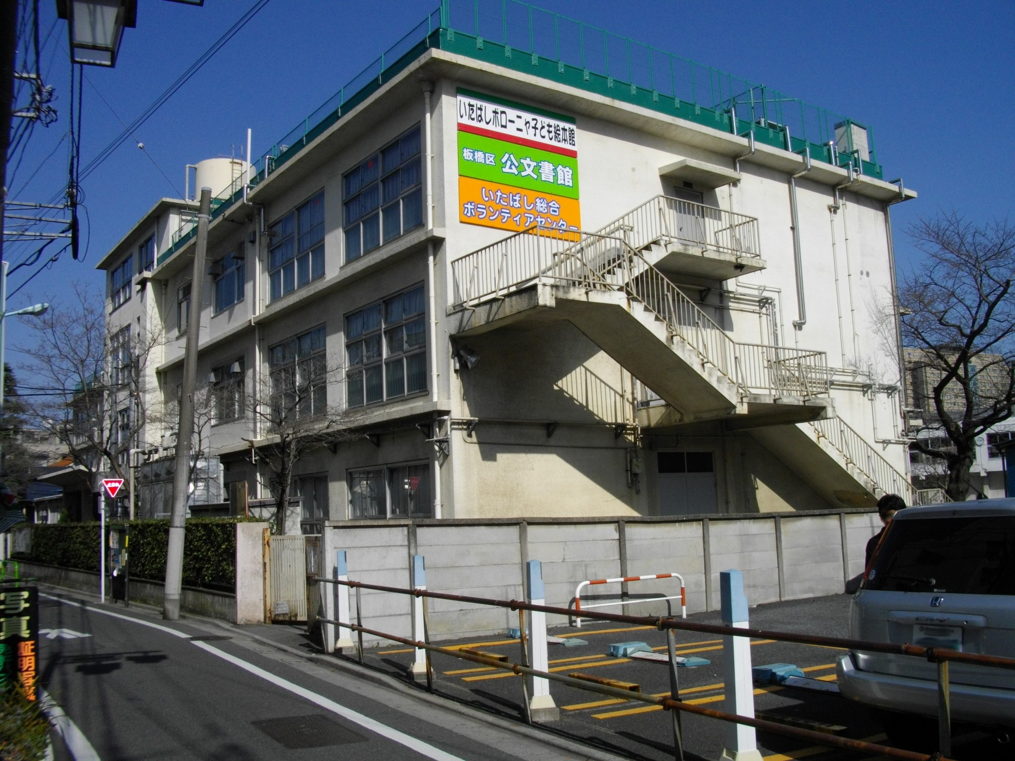 Itabashi-Ku_Archives